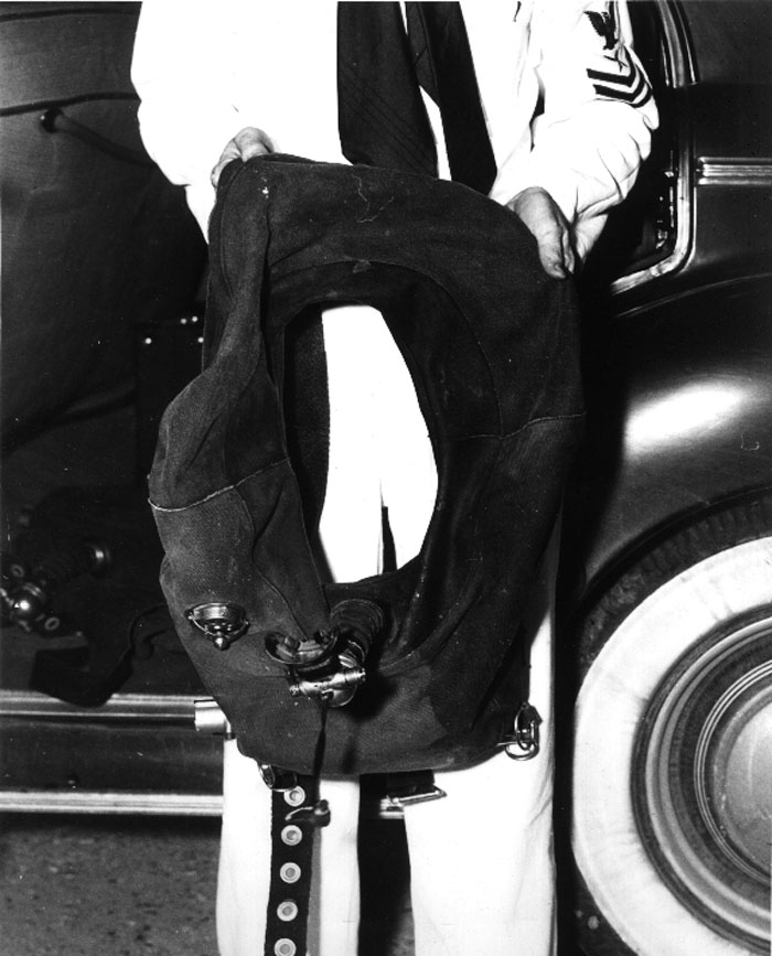 Escape lung taken from a survivor